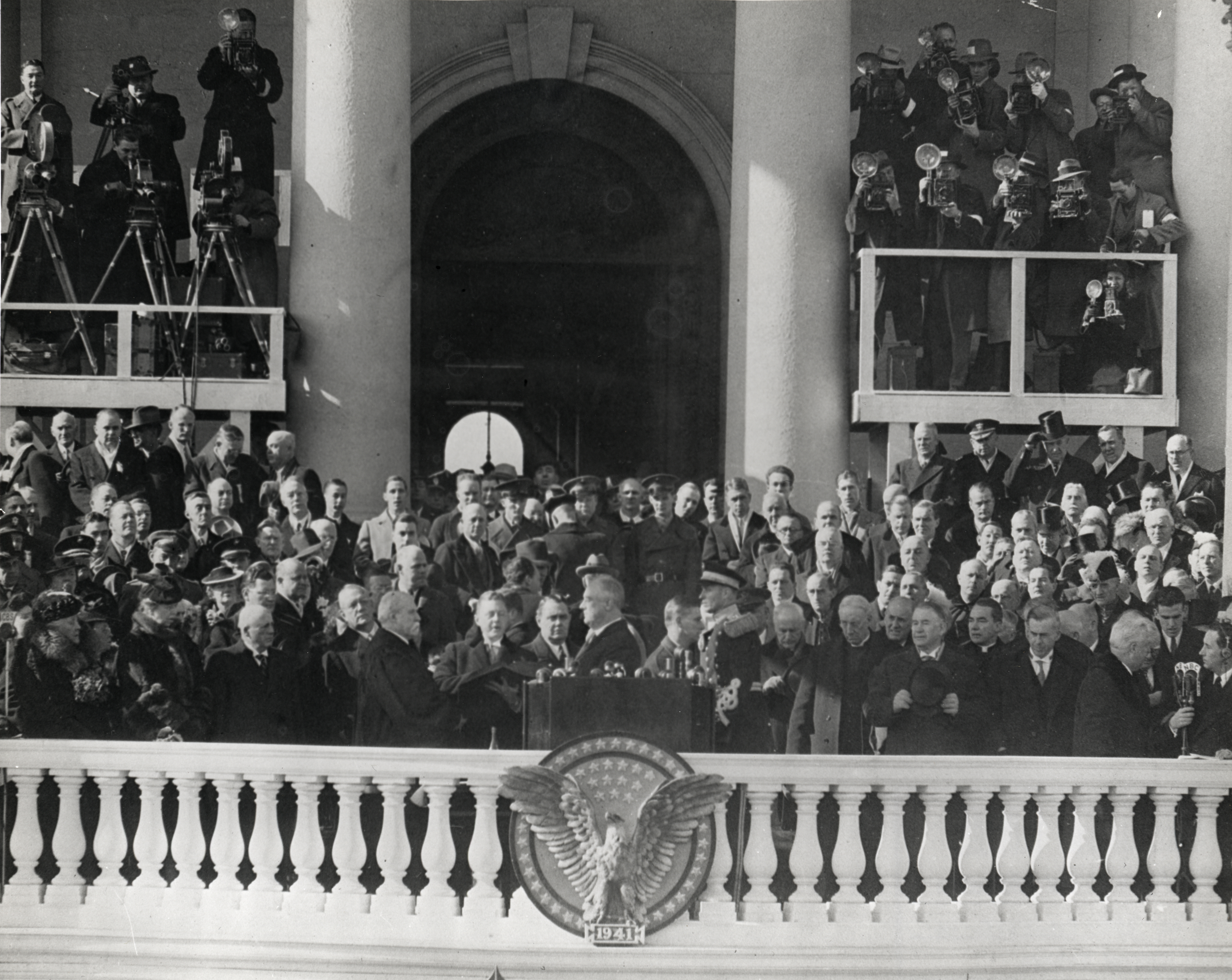 FDR takes the Oath of Office from Chief Justice Charles Evan Hughes at his third Inaugural Ceremony. January 20, 1941.